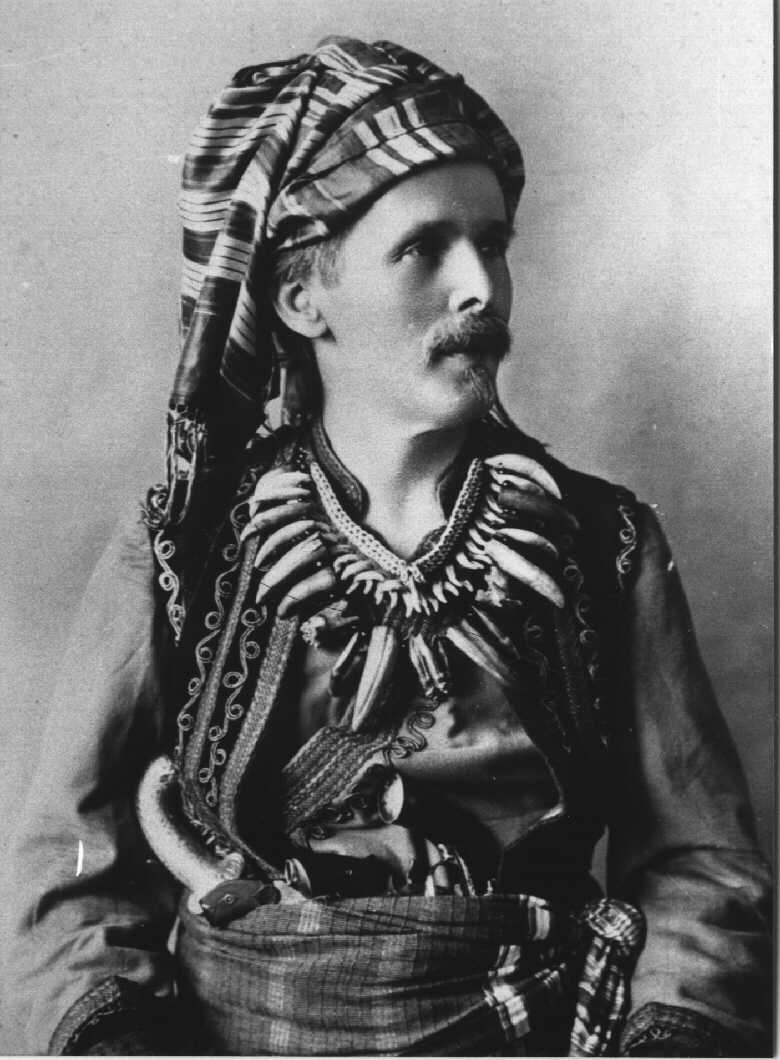 Karl May like Karab ben Nemsí